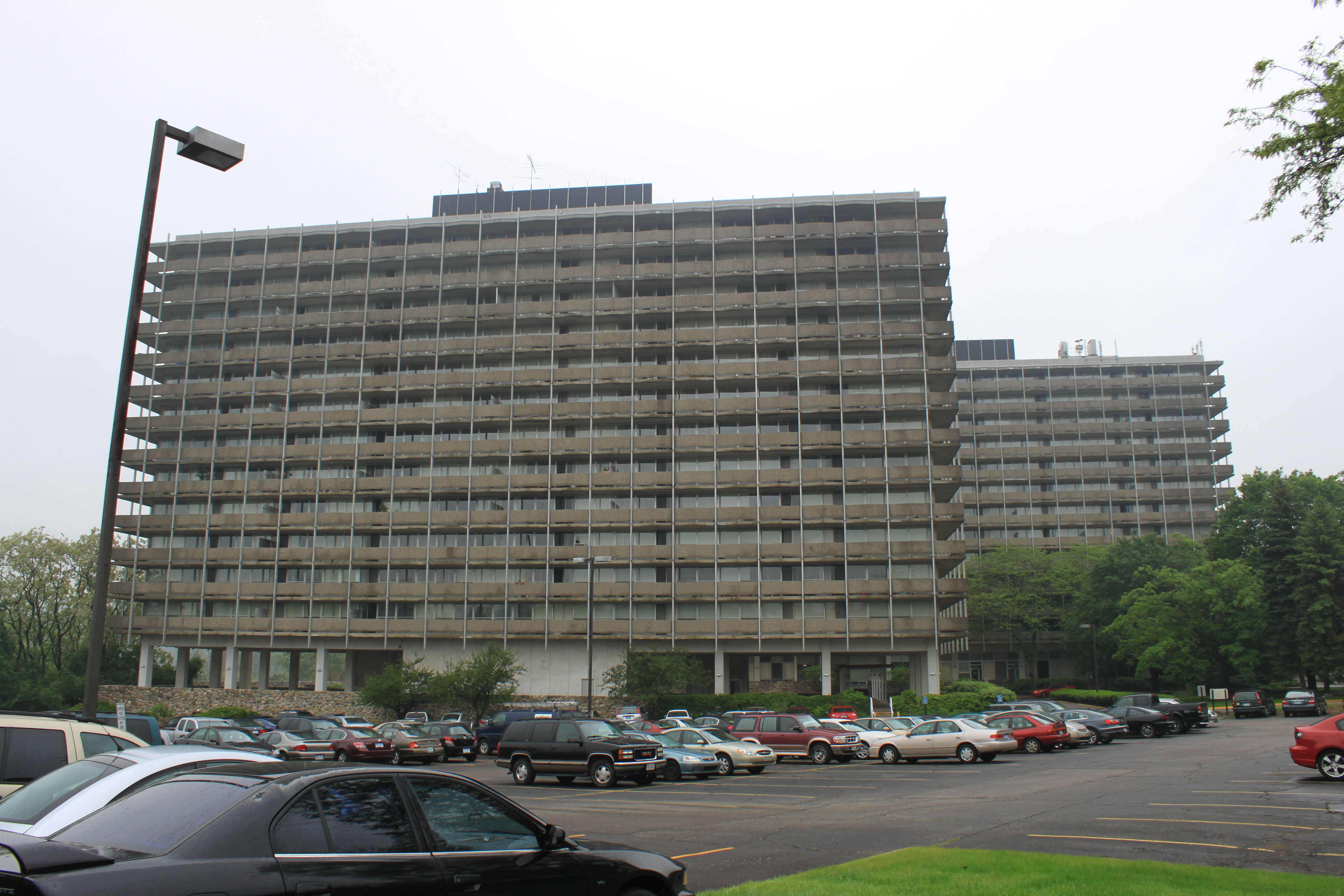 Huron Towers apartment buildings, 2200 Fuller Ct., Ann Arbor, Michigan